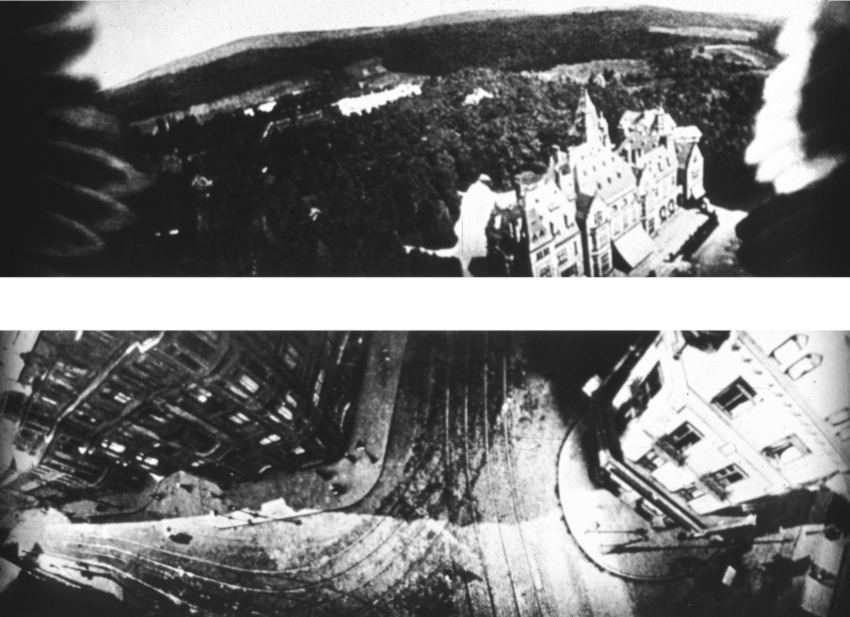 Aerial images from Julius Neubronner's camera strapped to a homing pigeon, including one with wing tips visible on the edges